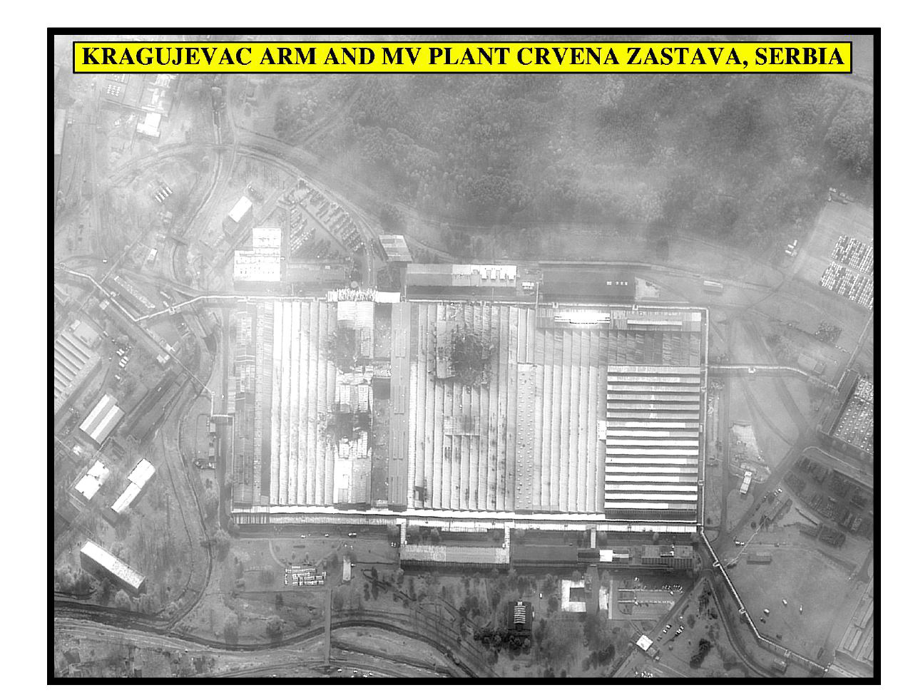 Post-strike assessment photograph of the Kragujevac ARM and MV plant Crvena Zastava, Serbia, used by Joint Staff Vice Director for Strategic Plans and Policy Maj. Gen. Charles F. Wald, U.S. Air Force, during a press briefing on NATO Operation Allied Force in the Pentagon on April 14, 1999.